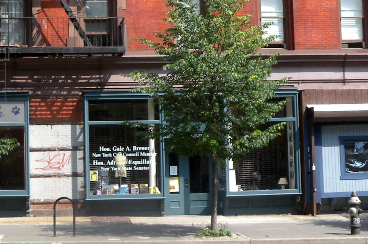 Looking east across Columbus Avenue at main district office of City Council member Gail Brewer and secondary office of State Senator Espaillat.